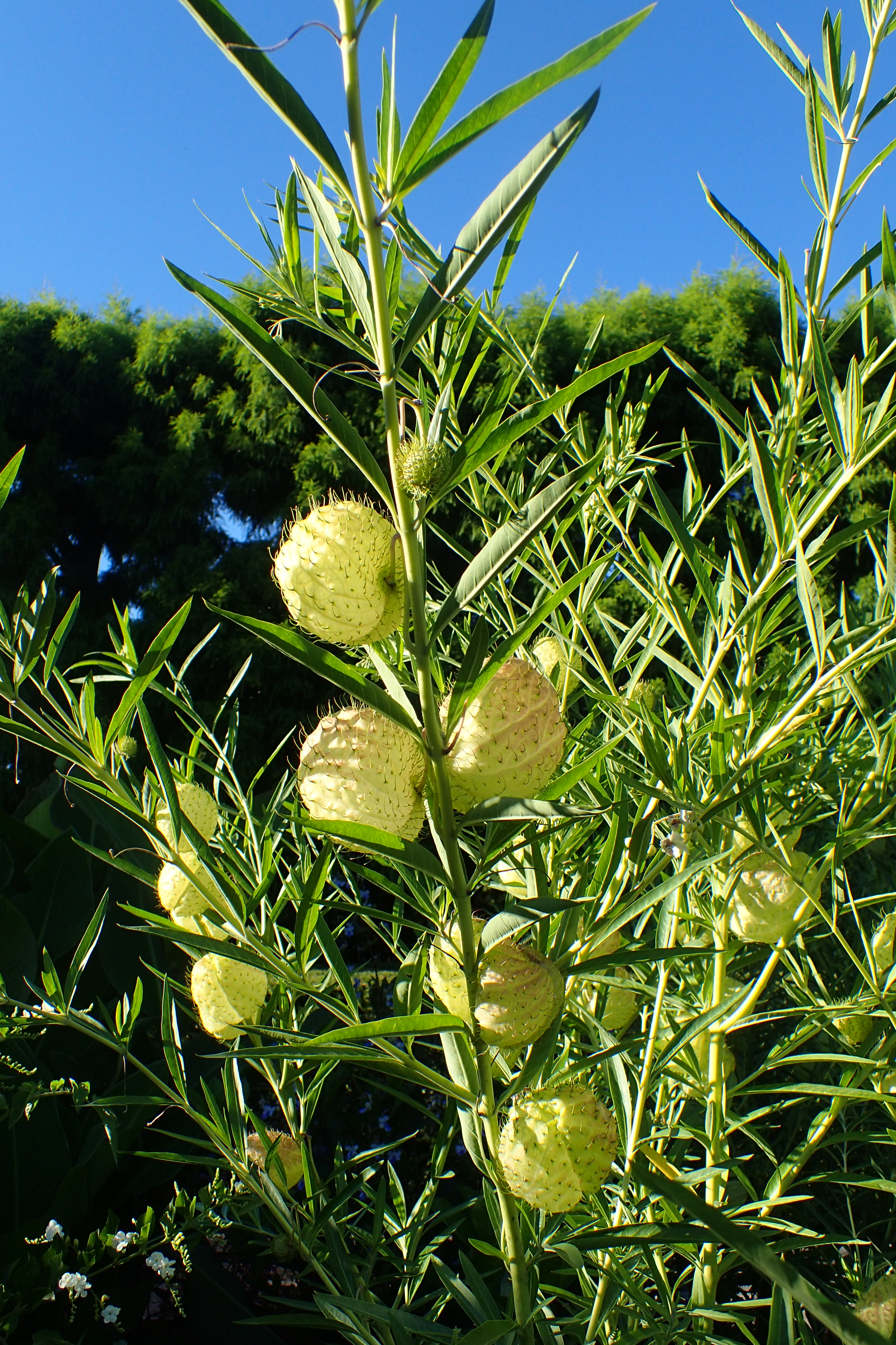 Gomphocarpus physocarpus at Chicago Botanic Garden